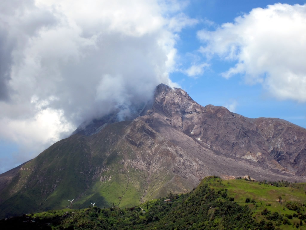 The Soufriere Hills Volcano continues to smoke 16 years after the initial 1995 eruption.